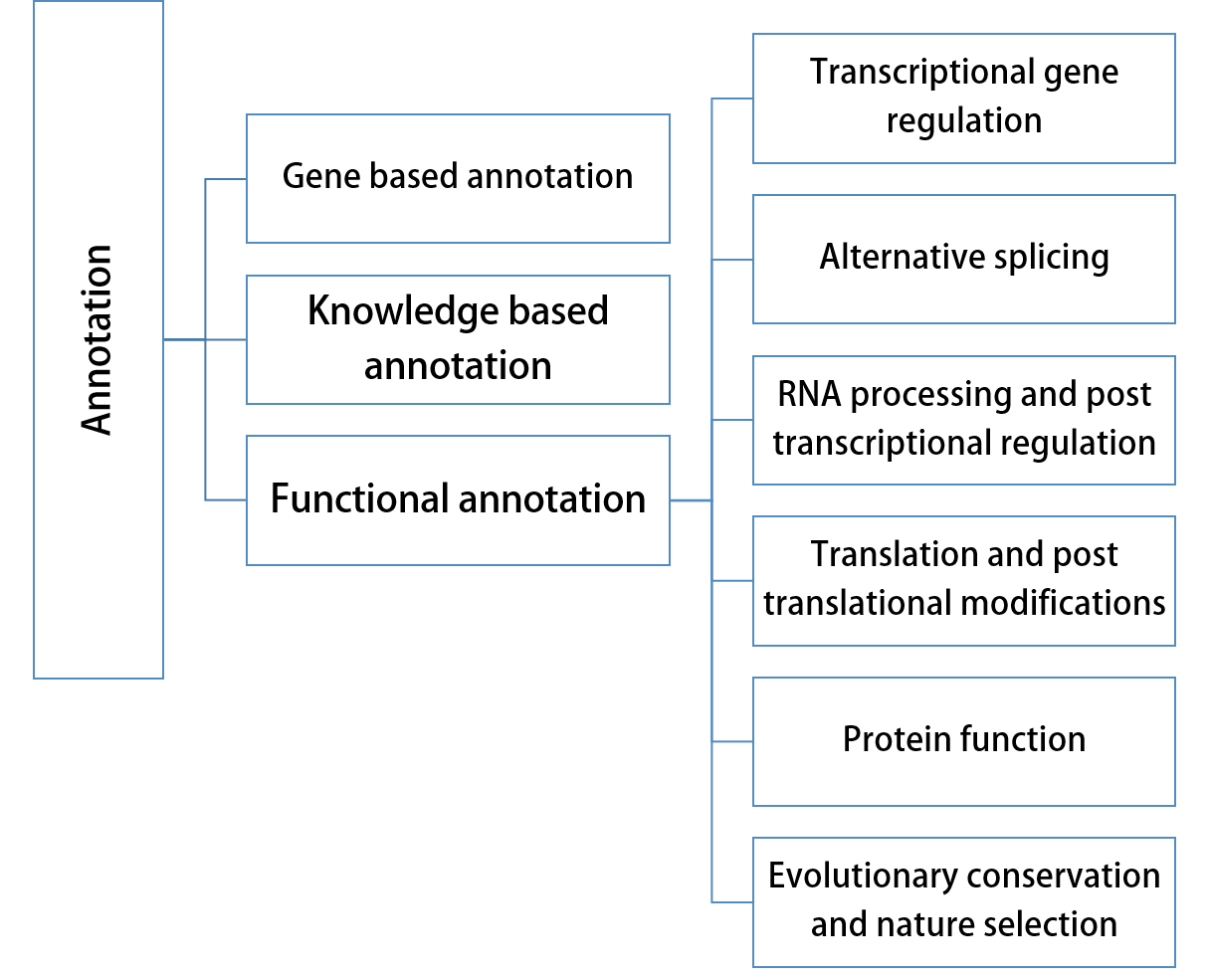 Annotation Process